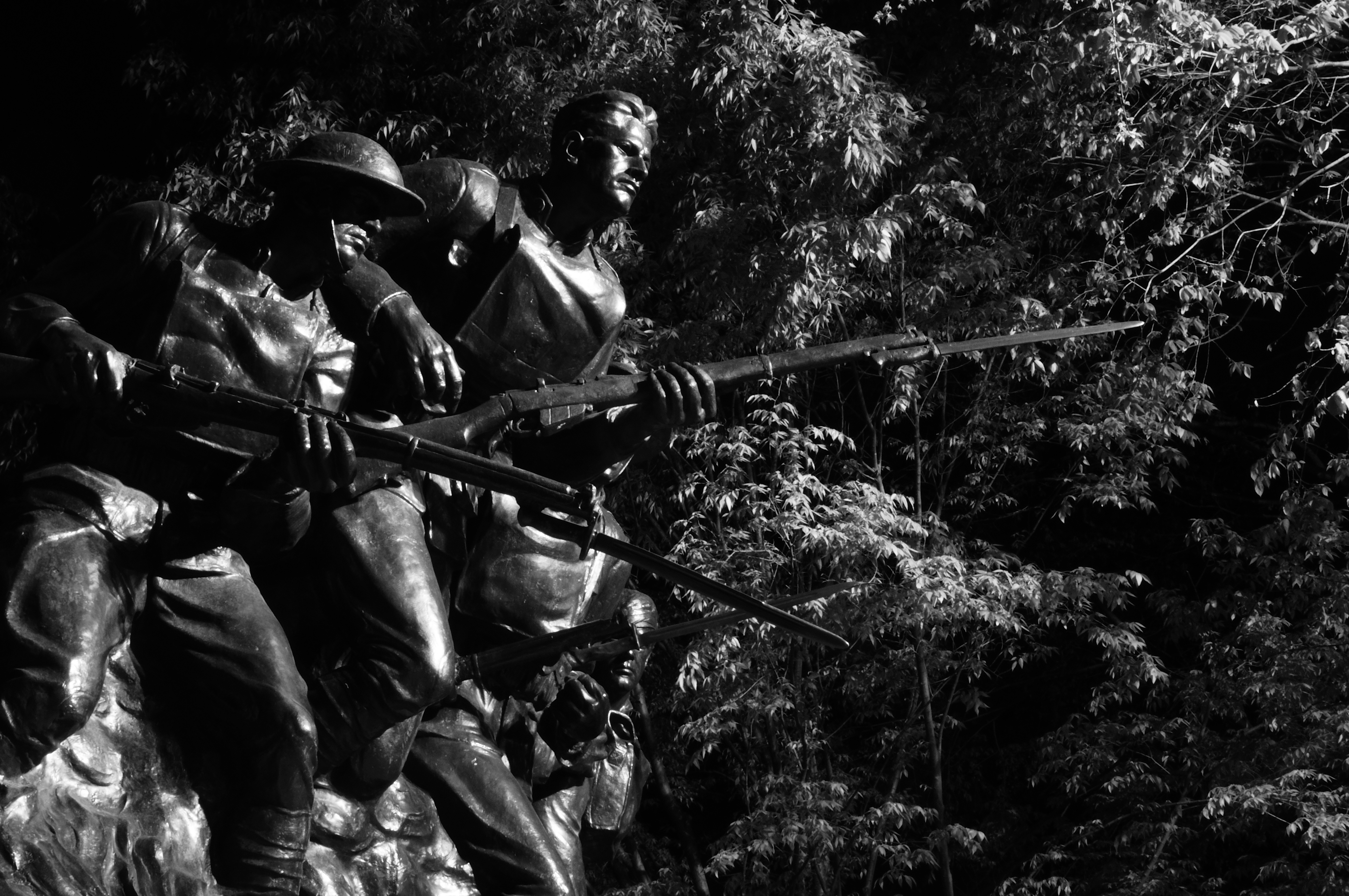 A picture at night of the 107th Regiment memorial on Central Park and East 67th Street